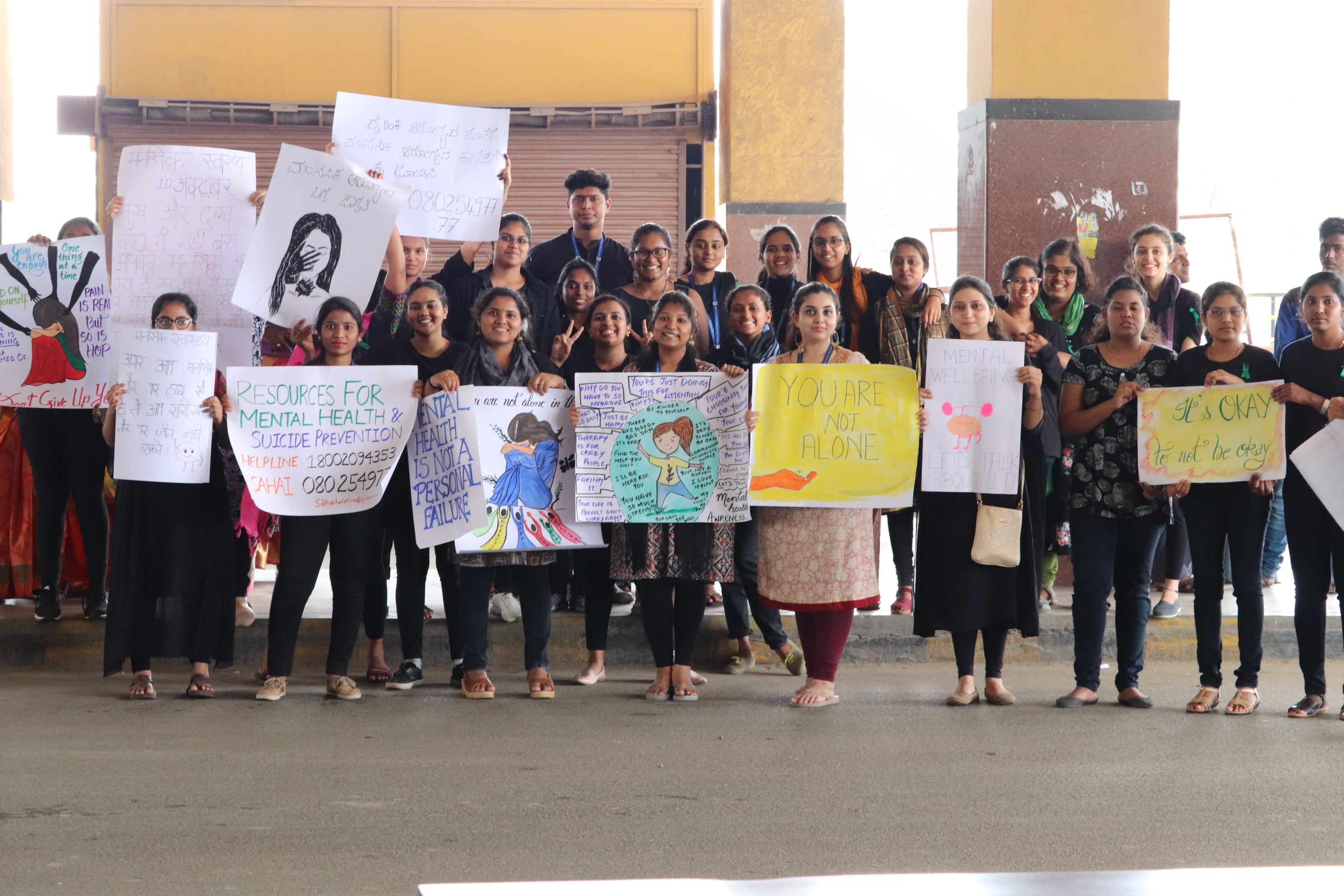 Mental Health Day Rally by M.Sc Psychology students